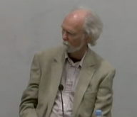 Professors Barry Buzan and Amitav Acharya in conversation with Dr. Dan Plesch about their research and work editing the groundbreaking book "Non-Western International Relations Theory: Perspectives On and Beyond Asia", chaired by Dr Meera Sabaratnam. The work argues that given that the world has moved well beyond the period of Western colonialism, and clearly into a durable period in which non-Western cultures have gained their political autonomy, it is long past time that non-Western voices had a higher profile in debates about international relations, not just as disciples of Western schools of thought, but as inventors of their own approaches.